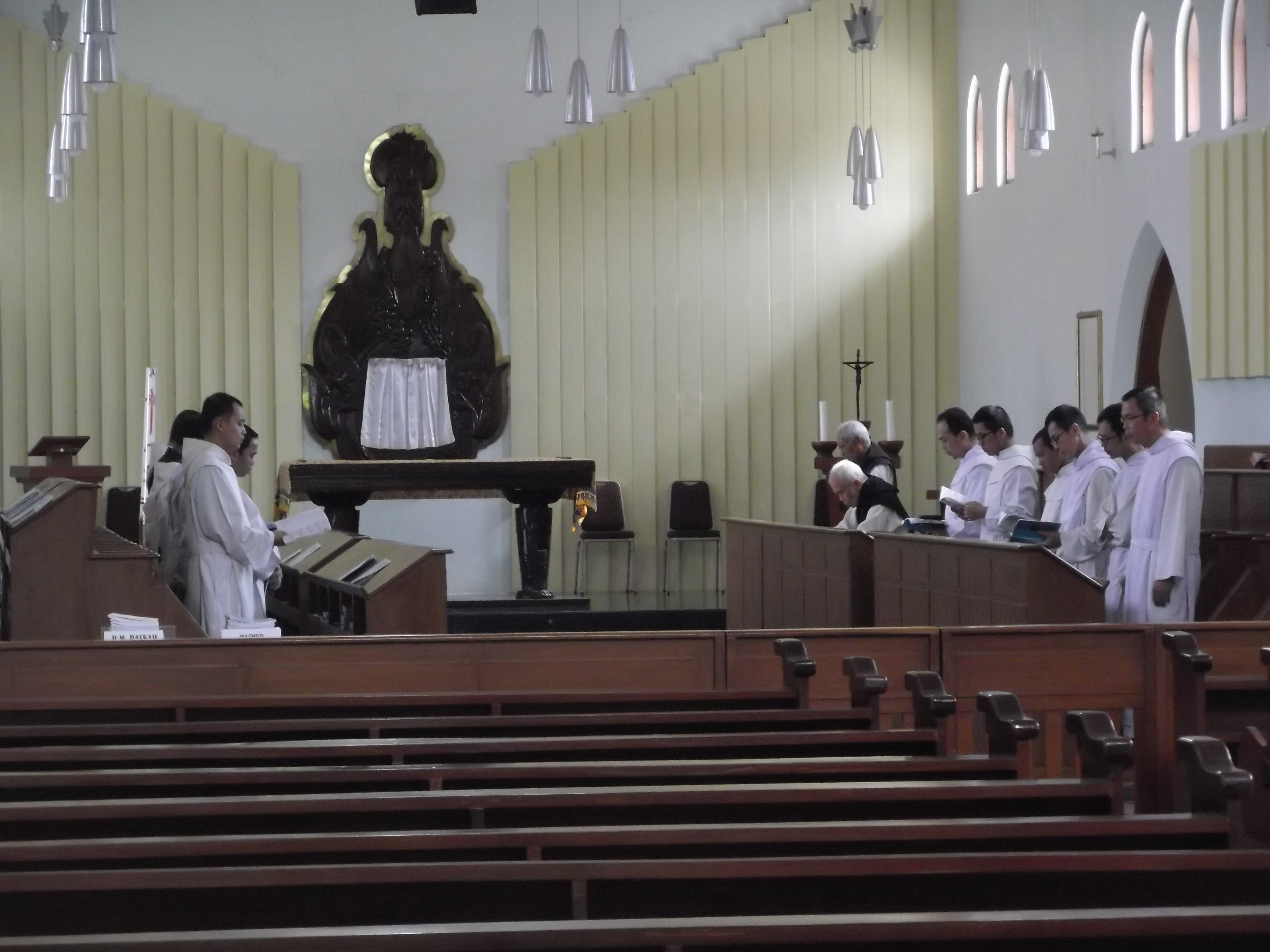 Trappist monks are celebrating Terce in the Church of the Monastery of Saint Mary Rawaseneng, Temanggung, Indonesia.